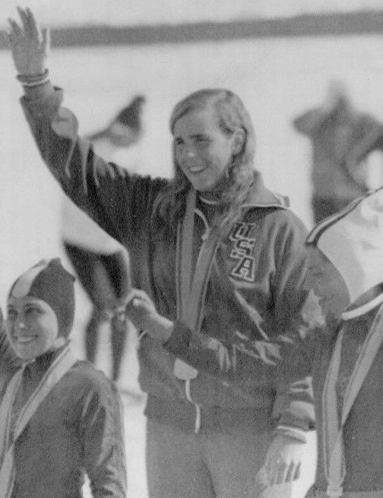 LG30 1972 Wire Photo VERA KRASNOVA ANNE HENNING LUDMILLA TITOVA Olympic Skaters